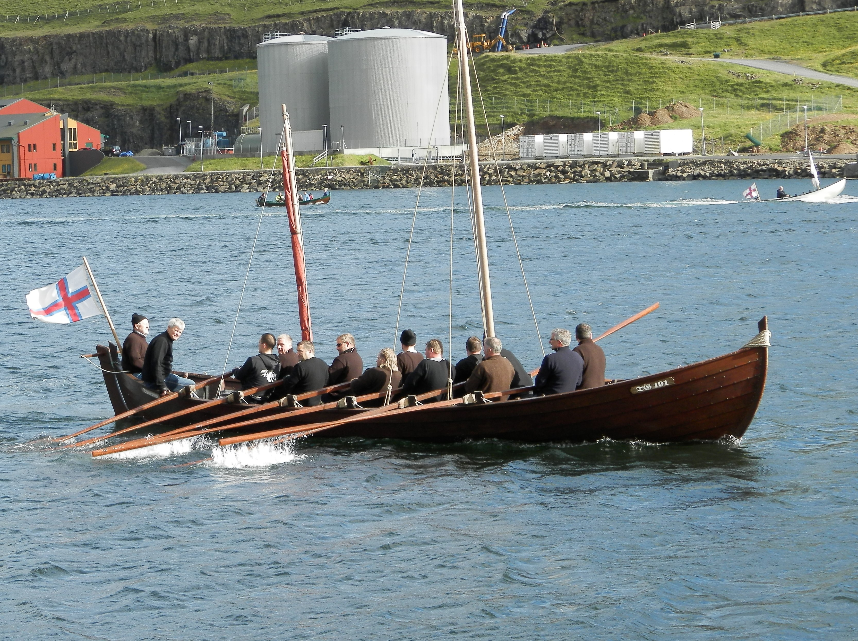 Naddoddur is a Faroese wooden boat, built like the boats of the Vikings. Here it is in Vágur in July 2016 with 12 rowers.